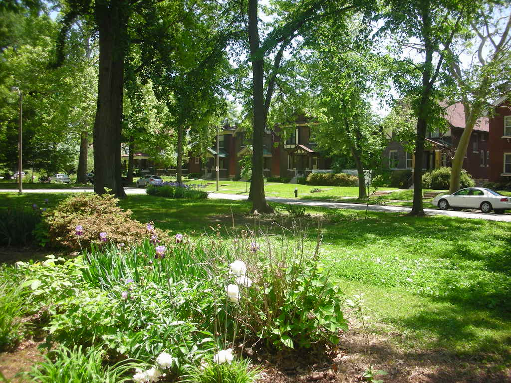 St. Louis Carondalet Neighborhood